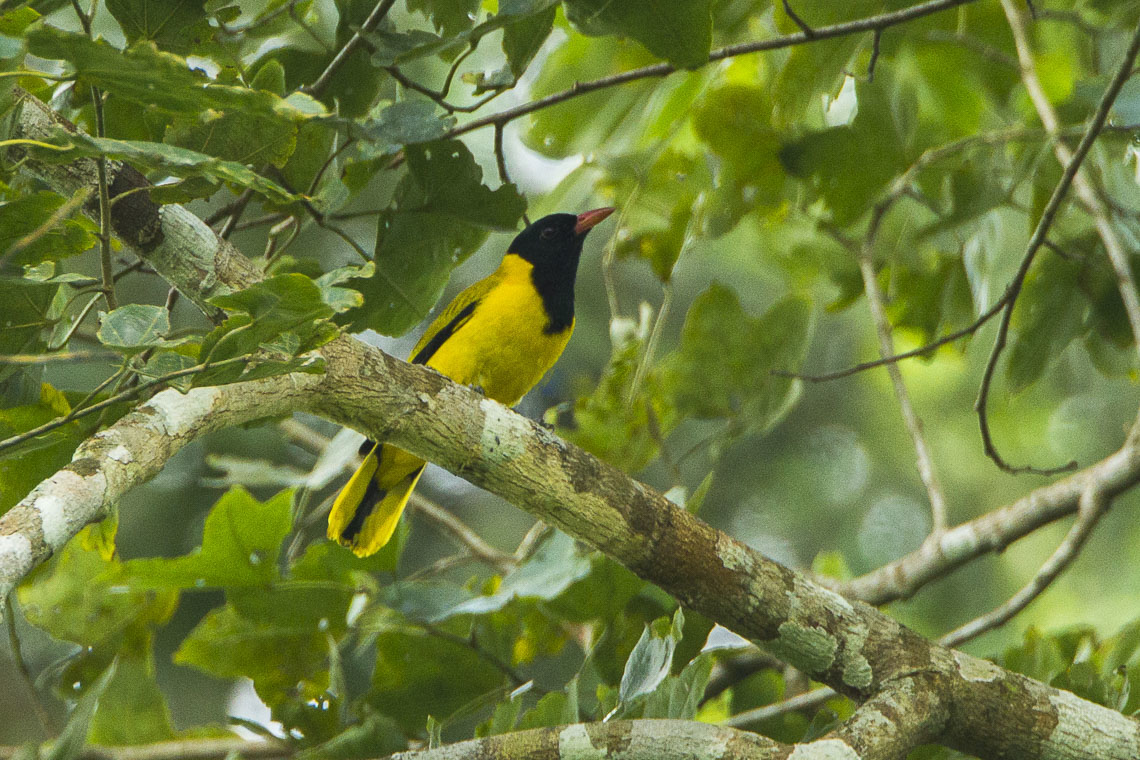 Black-winged Oriole - Kakum NP - Ghana 14_S4E2635